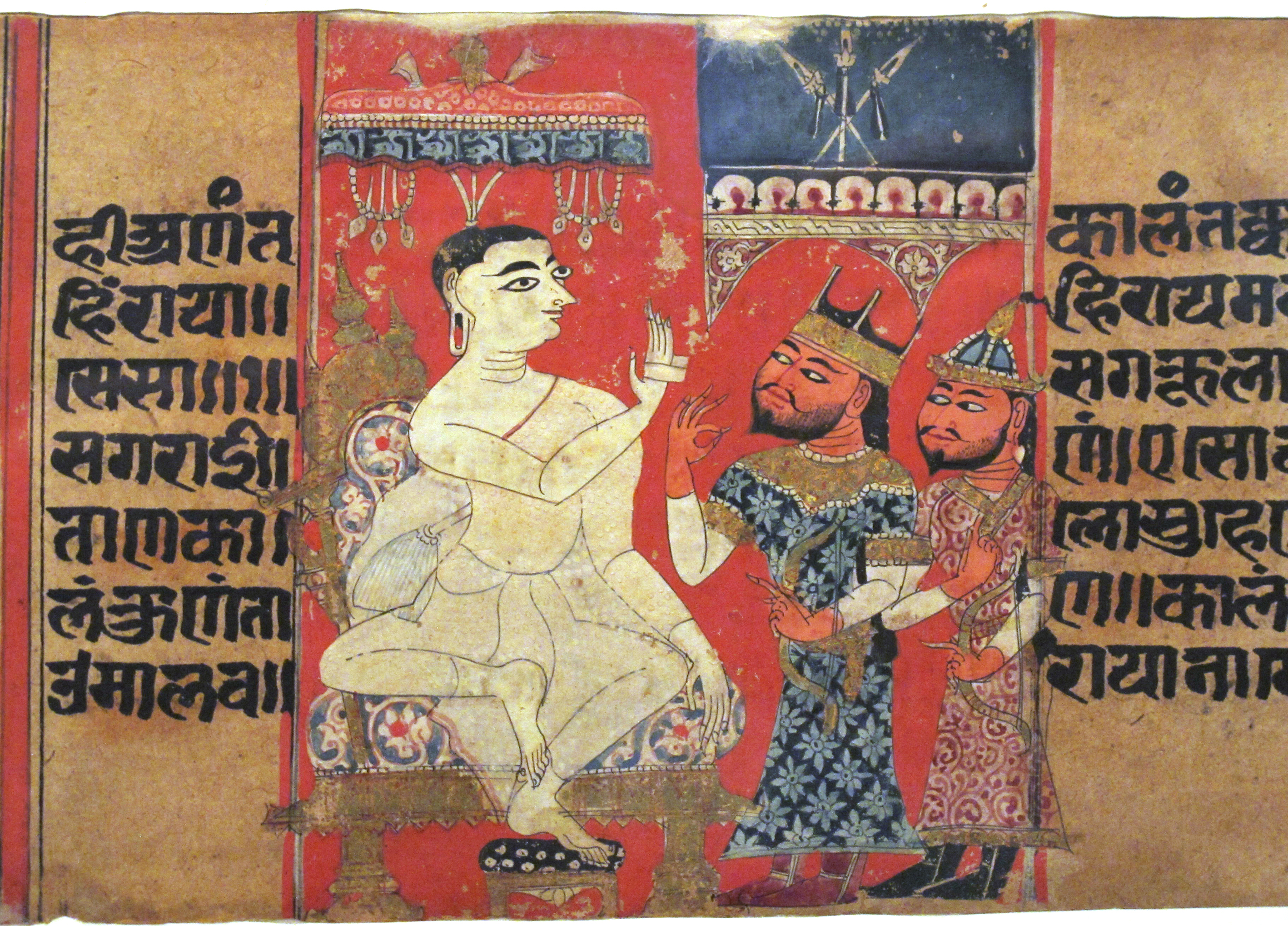 Captive Gardabhilla presented before Kalakacharya. Folio from manuscrit of Kalpasutra and Kalakacharya Katha. Circa 1375, Western India. Prince of Wales Museum of Western India, officially renamed as Chhatrapati Shivaji Maharaj Vastu Sangrahalaya. Mumbay